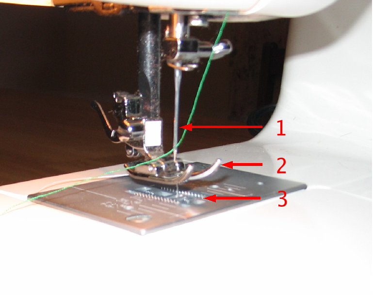 Photo showing 1) needle, 2) presser foot, and 3) feed dogs on a Singer sewing machine.